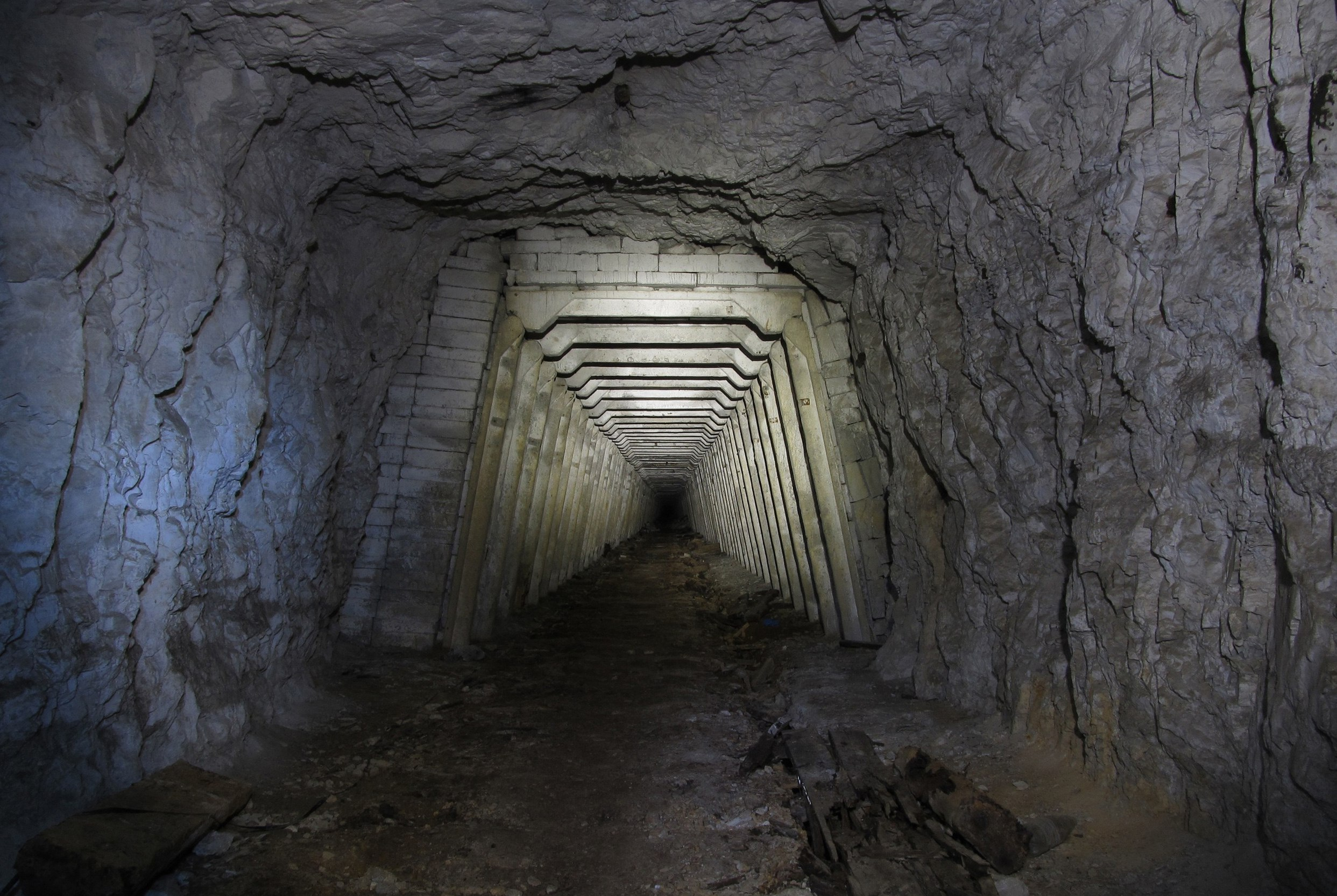 Uranium mine adit №31